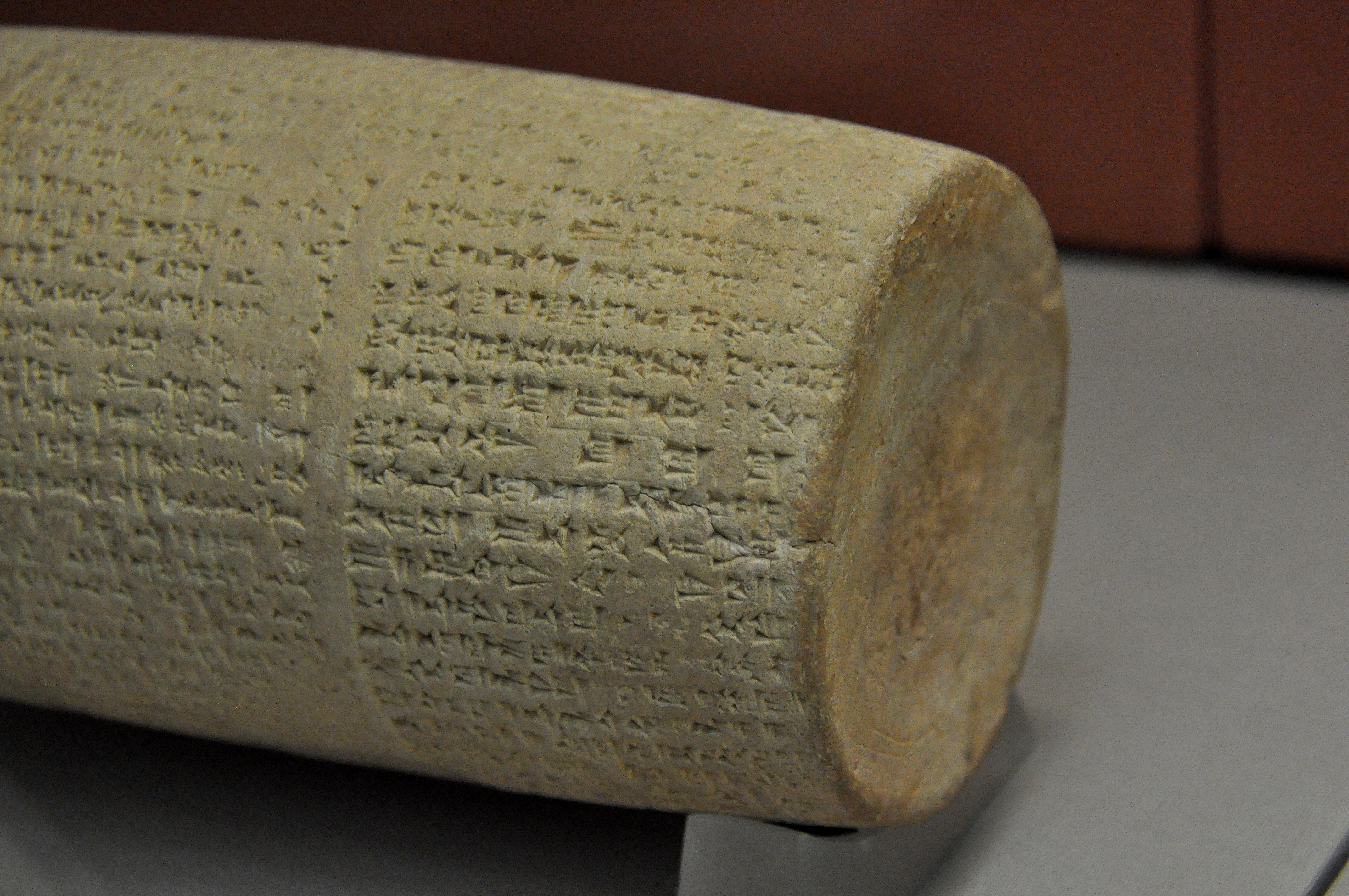 Detail of a terracotta cylinder of Nabonidus, recording the restoration work on the temple of Shamash, the sun-god, at the city of Larsa. It also mentions the building and reconstruction works of many shrines. Neo-Babylonian Period, reign of Nabonidus, 555-539 BCE. Probably from Larsa, modern-day Iraq, housed in the British Museum. London.